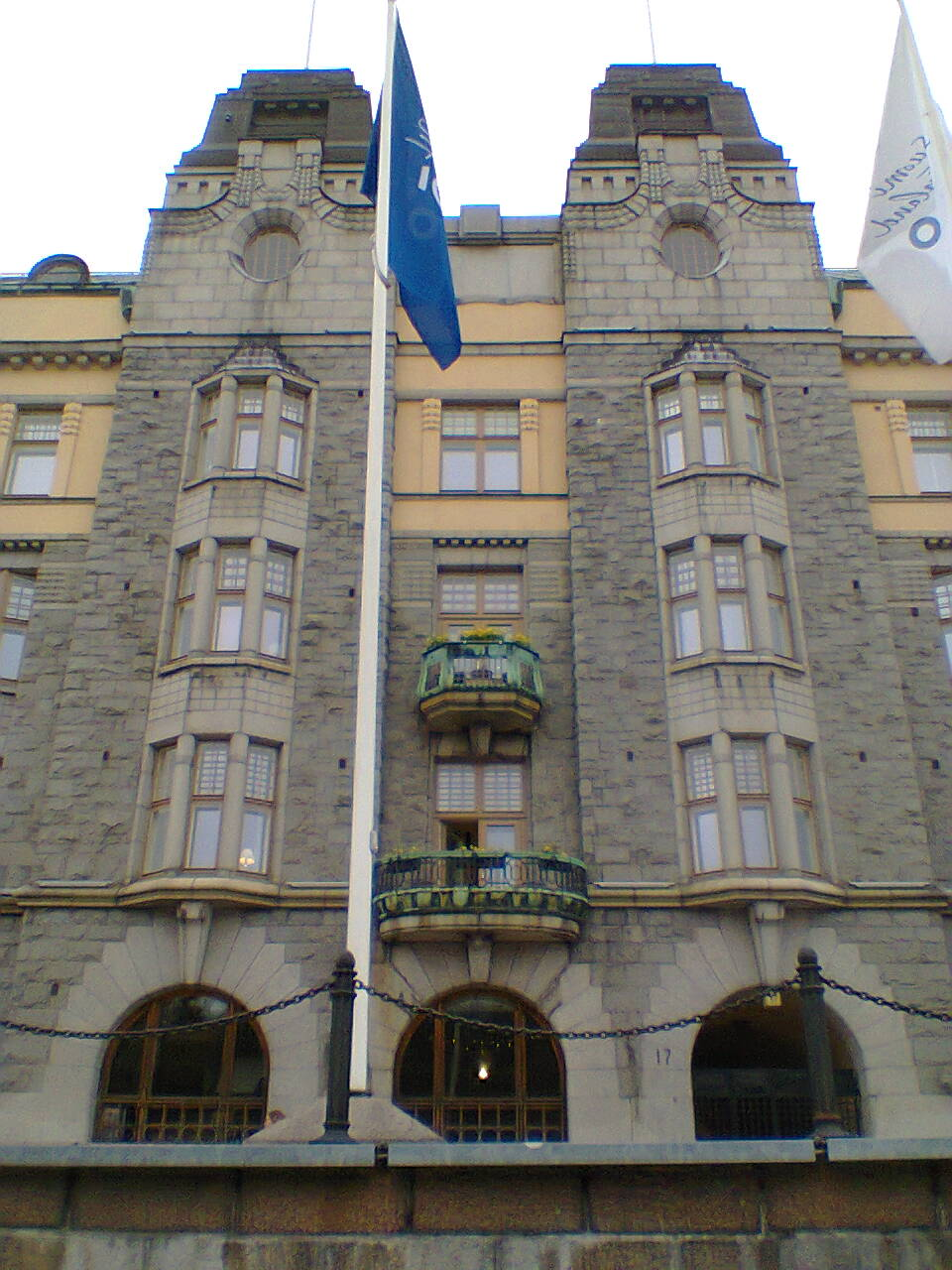 Kristiinankatu 1 (or Läntinen rantakatu 17), Turku, Finland. Art-nouveau building's front towers (1909).